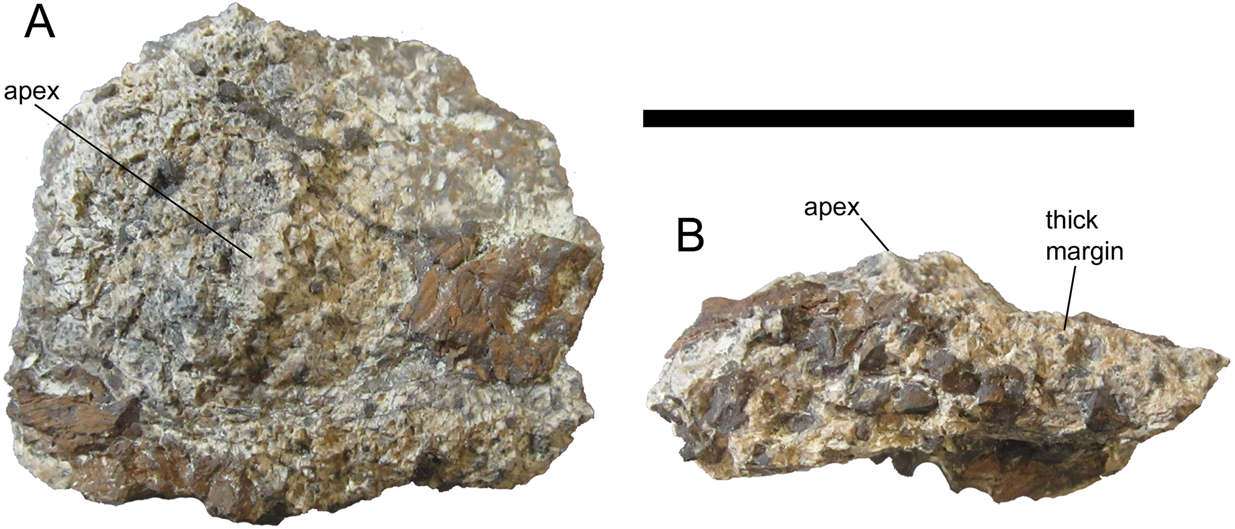 Original figure caption: Pelvic osteoderm of UMNH VP 28351, referred specimen of I. zephyri.Pelvic osteoderm in (A) external and (B) marginal views. Scale bar equals five cm.Note the great thickness of the margins.